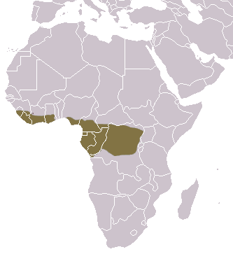 Long-tailed Pangolin (Phataginus tetradactyla) range